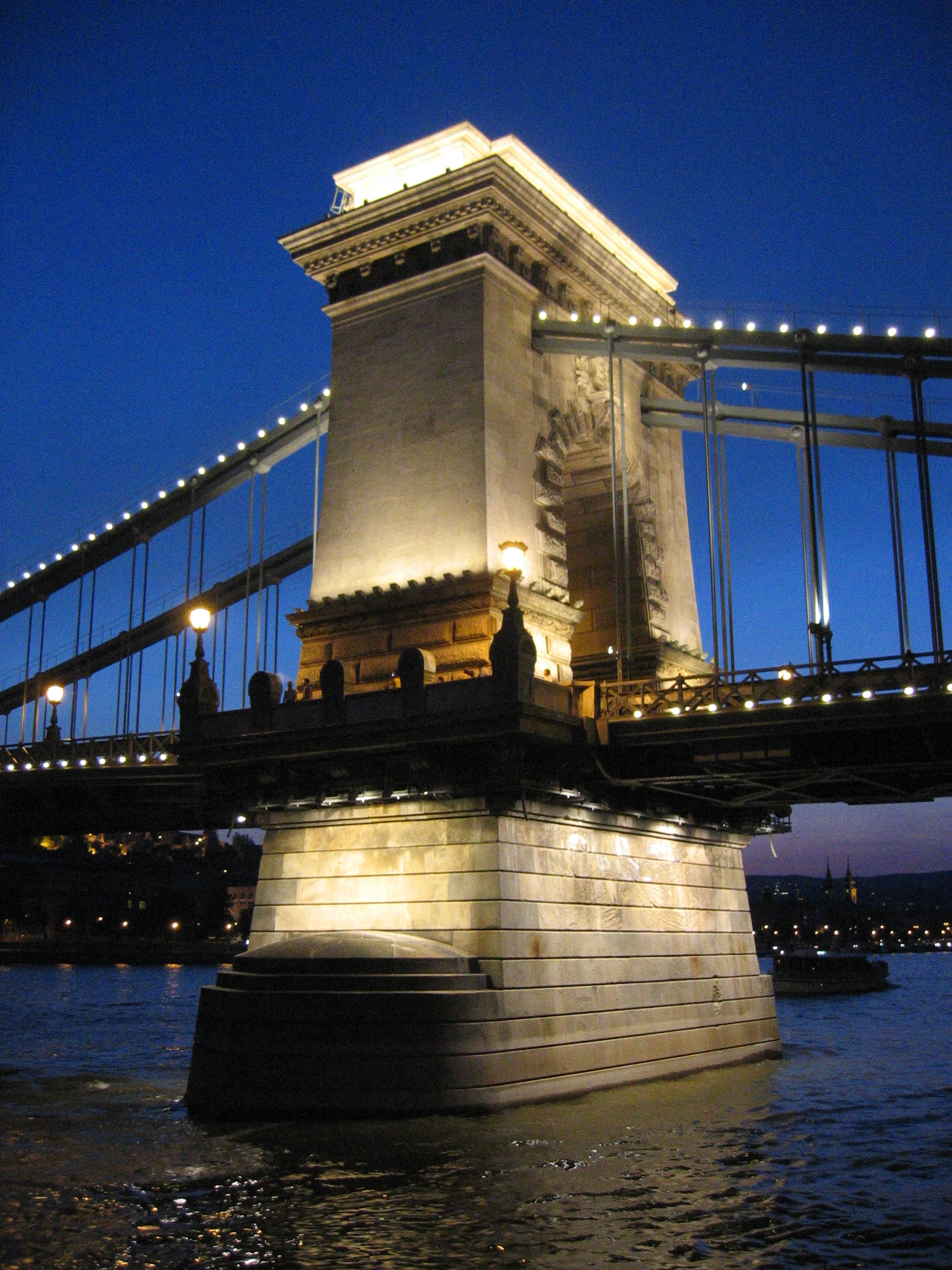 A pillar of the Budapest Chain Bridge by night. Photo taken with digital camera from a boat on the river Danube.